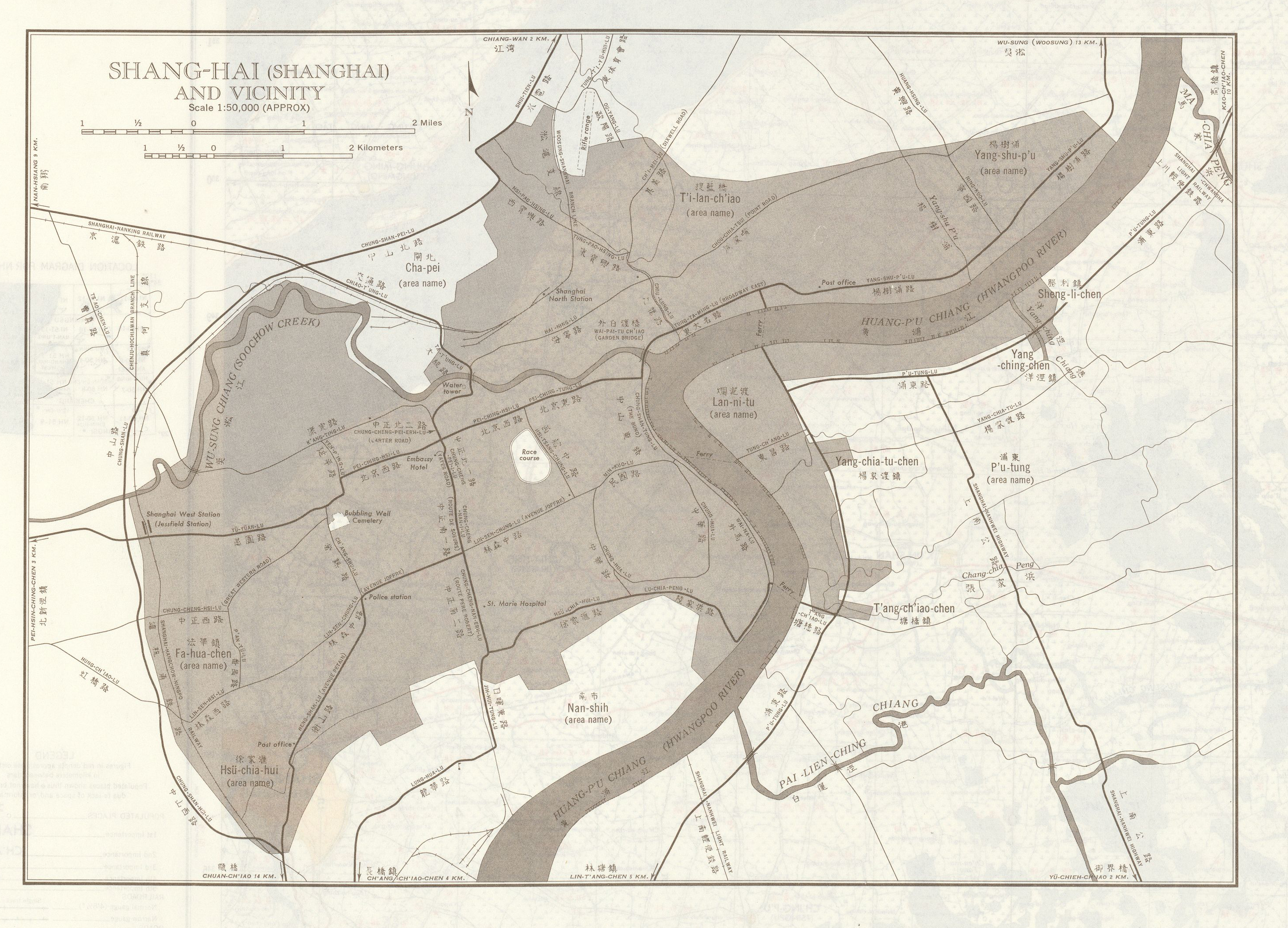 Map of Shanghai in 1954.